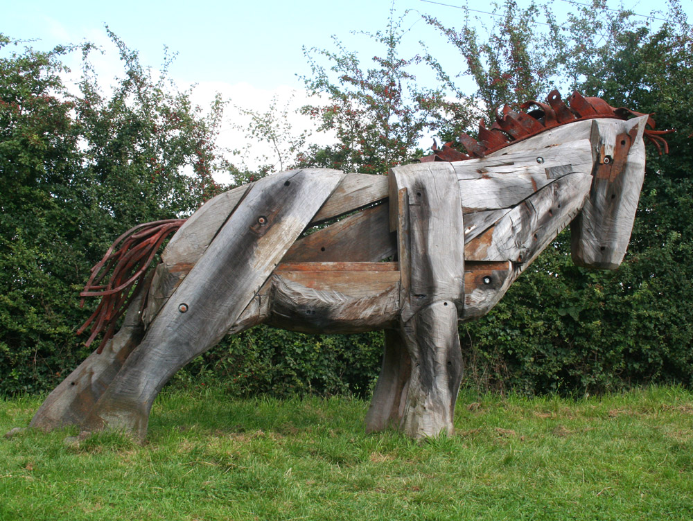 'Nantwich Horse' sculpture by John Merrill, located by the Shropshire Union Canal near Nantwich Marina